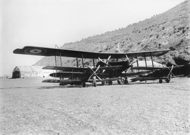 AWM caption : Ottoman Empire: Palestine, North Palestine, Haifa. A Handley-Page 0/400 aircraft with some Bristol Fighter machines at the aerodrome of the Australian Flying Corps at Haifa. Captain Ross Macpherson Smith frequently piloted this aircraft.